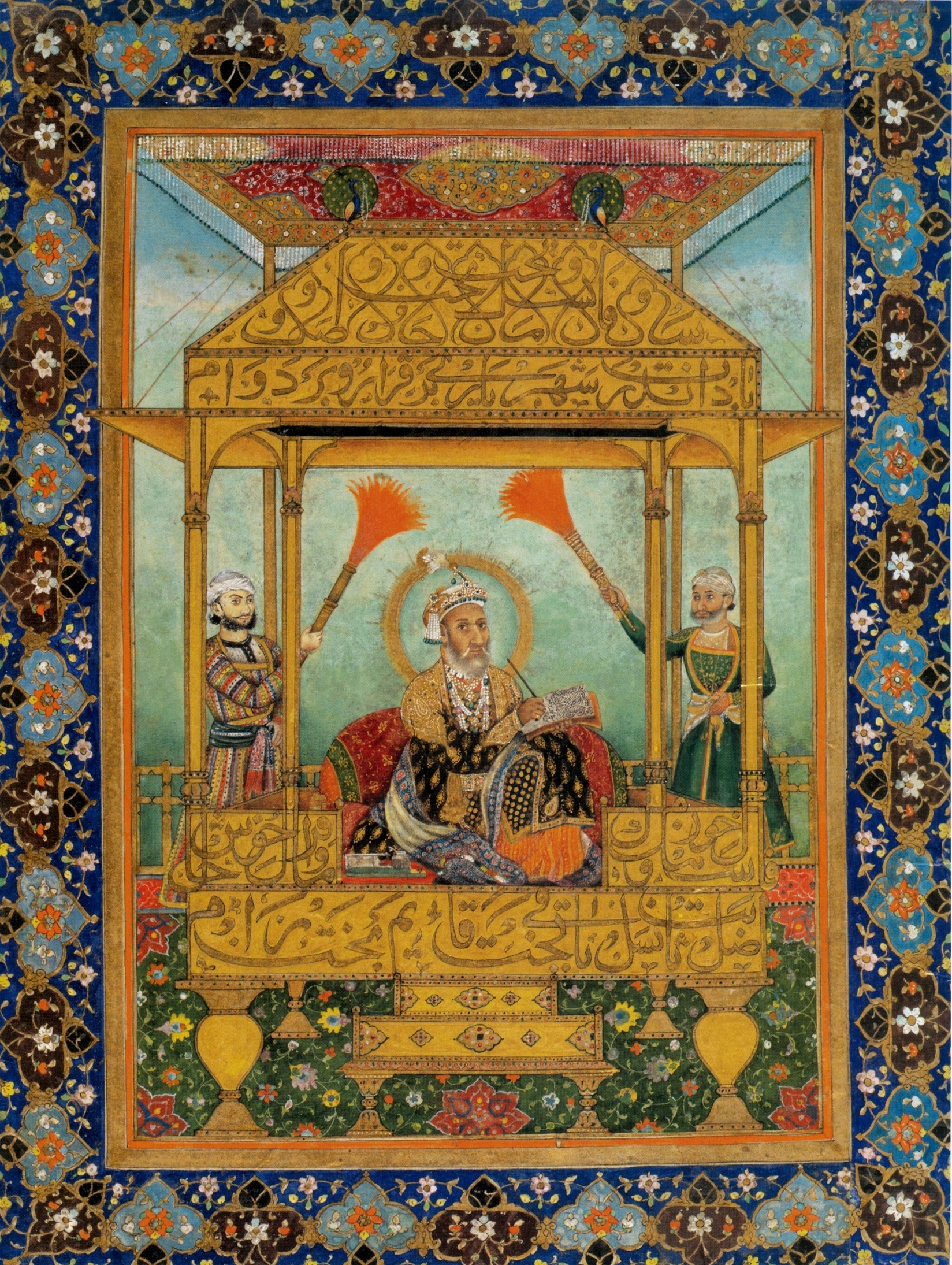 Portrait of Bahadur Shah II as calligrapher. Delhi, ca. 1850, Royal Ontario Museum, Toronto.